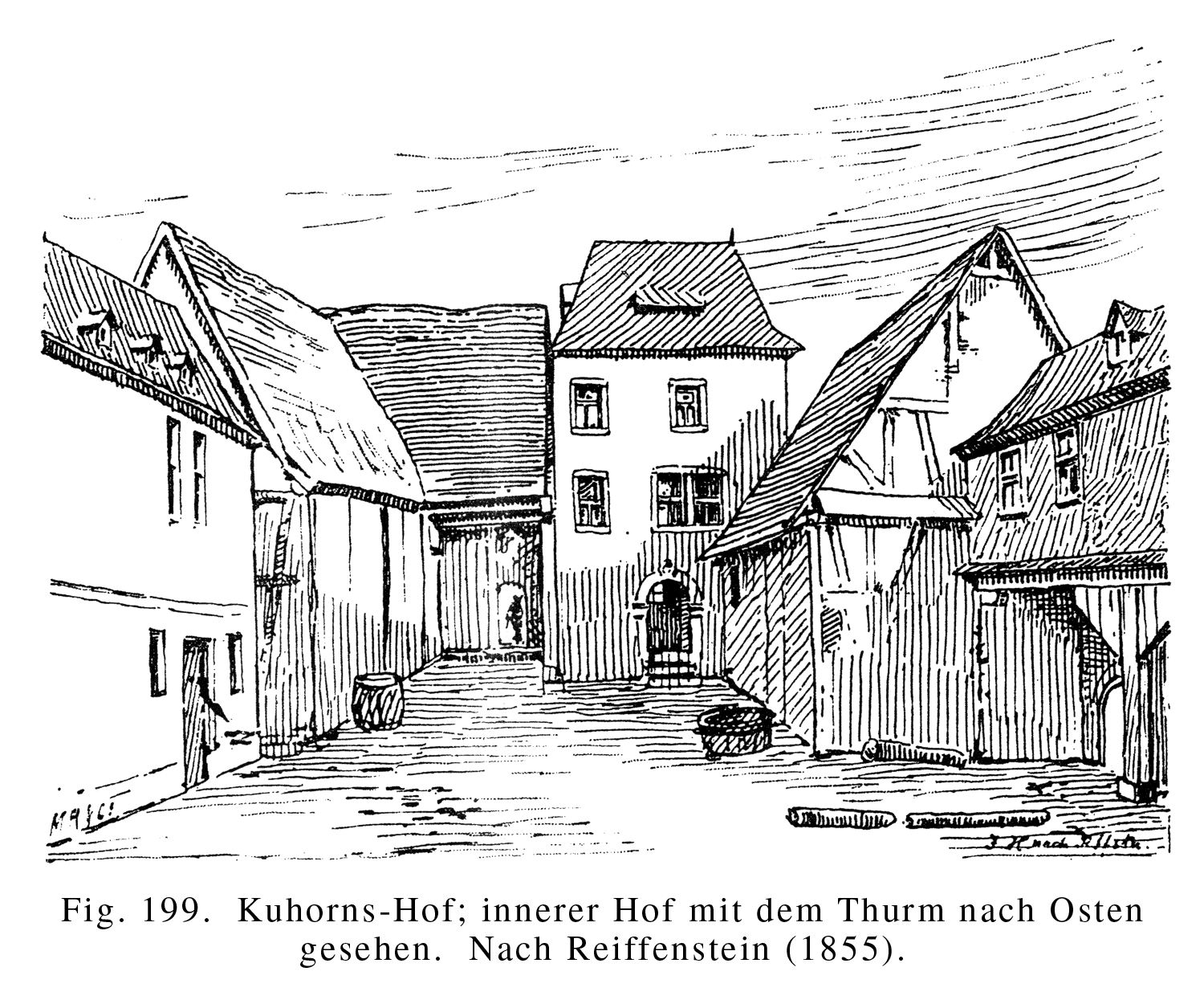 Frankfurt on the Main: Kuehhornshof, inner courtyard with the tower as seen to the east